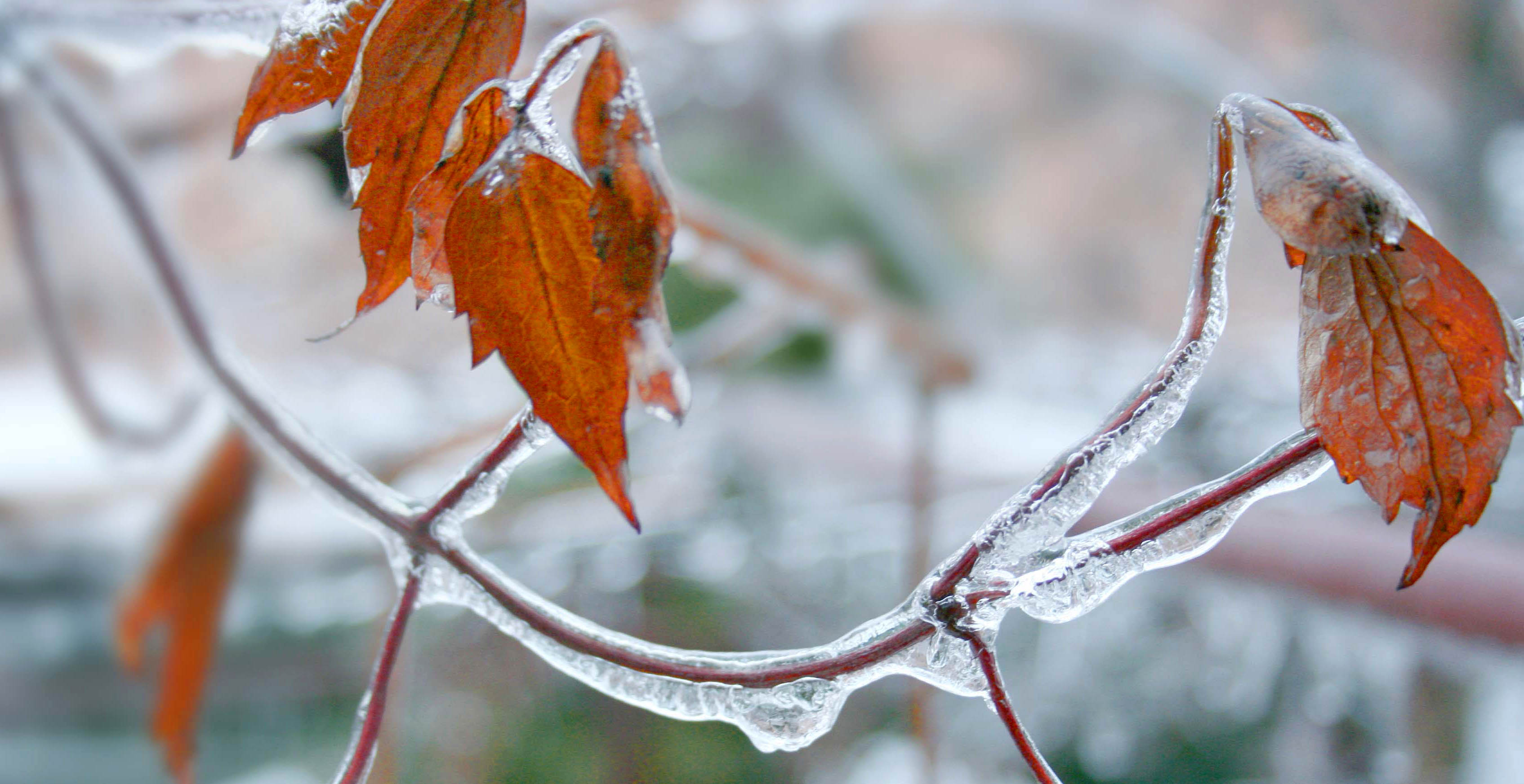 Freezing rain (glaze) - on the tree branch